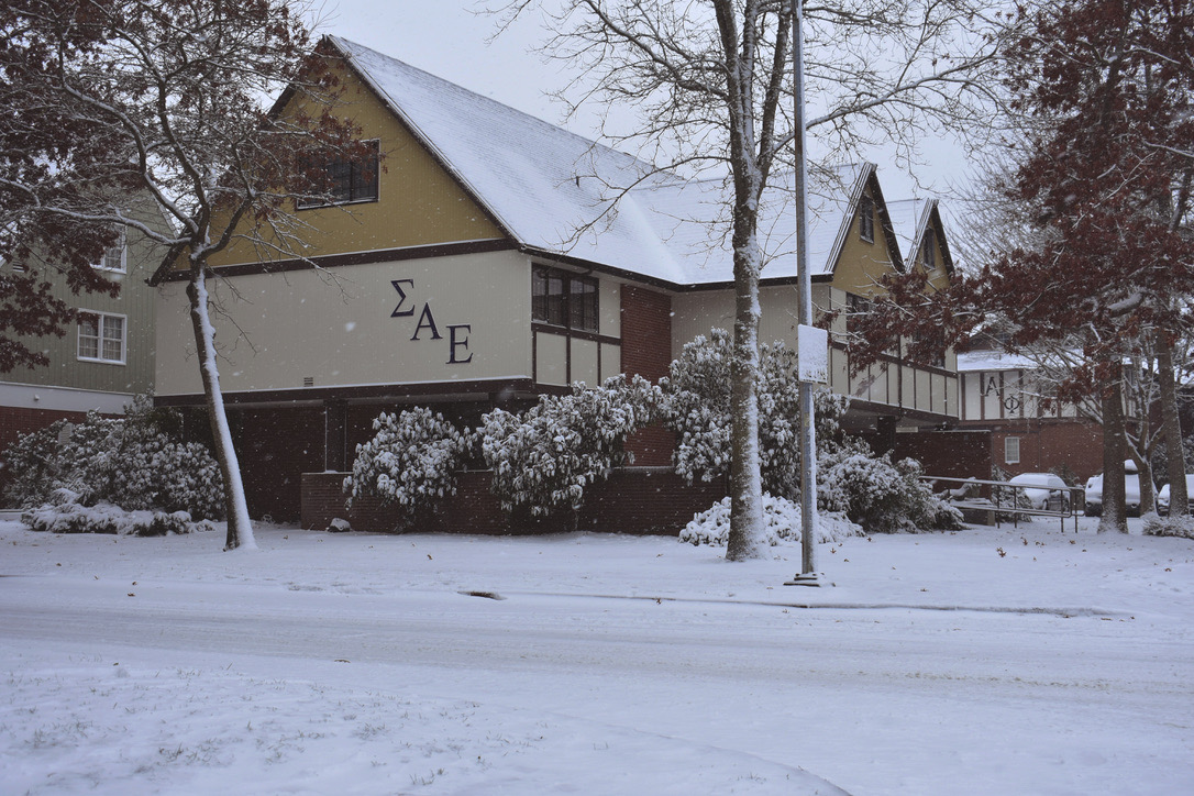 Sigma Alpha Epsilon Washington Gamma house on a winter day at the University of Puget Sound.